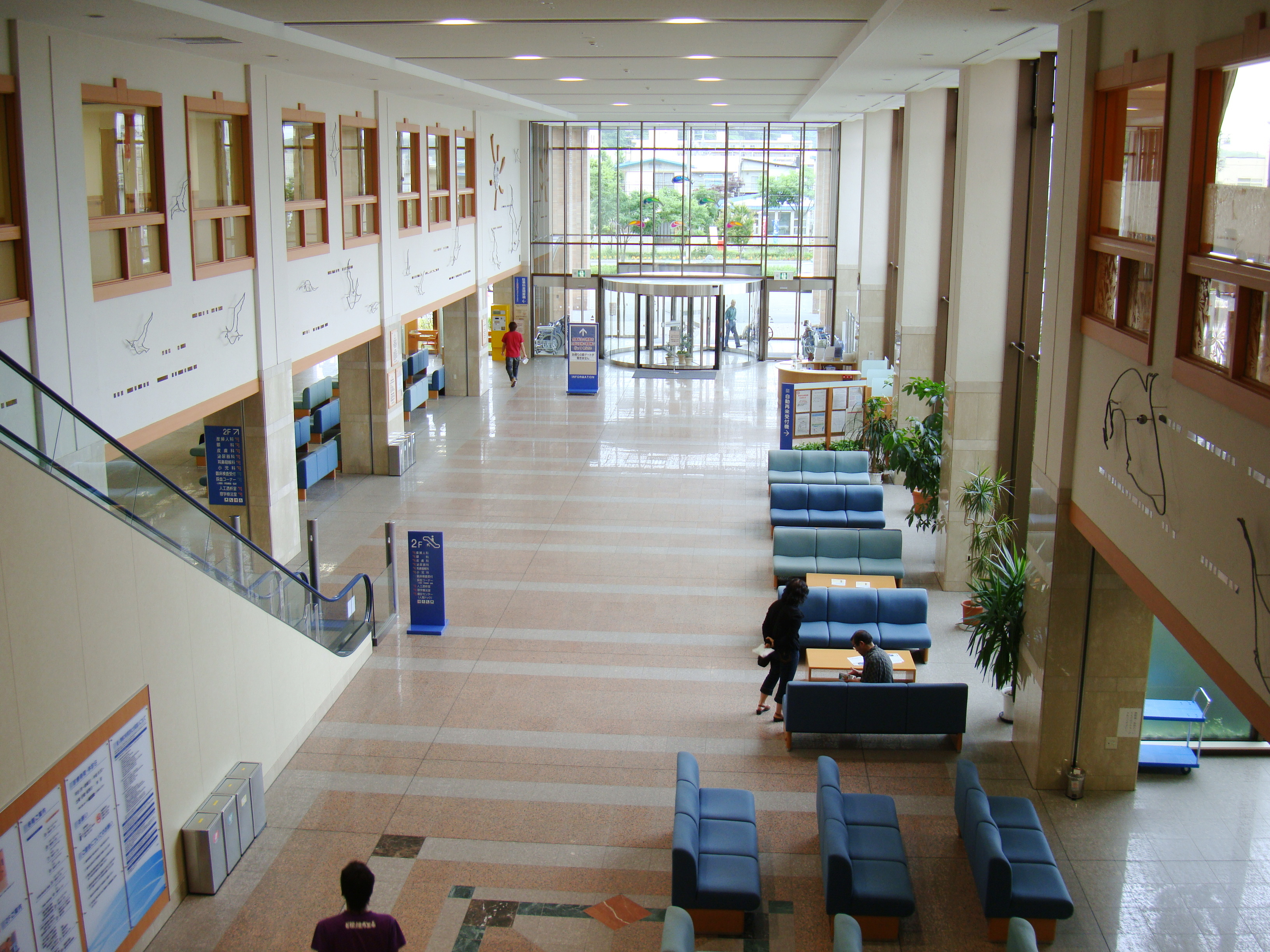 Interior of Abashiri-Kosei General Hospital